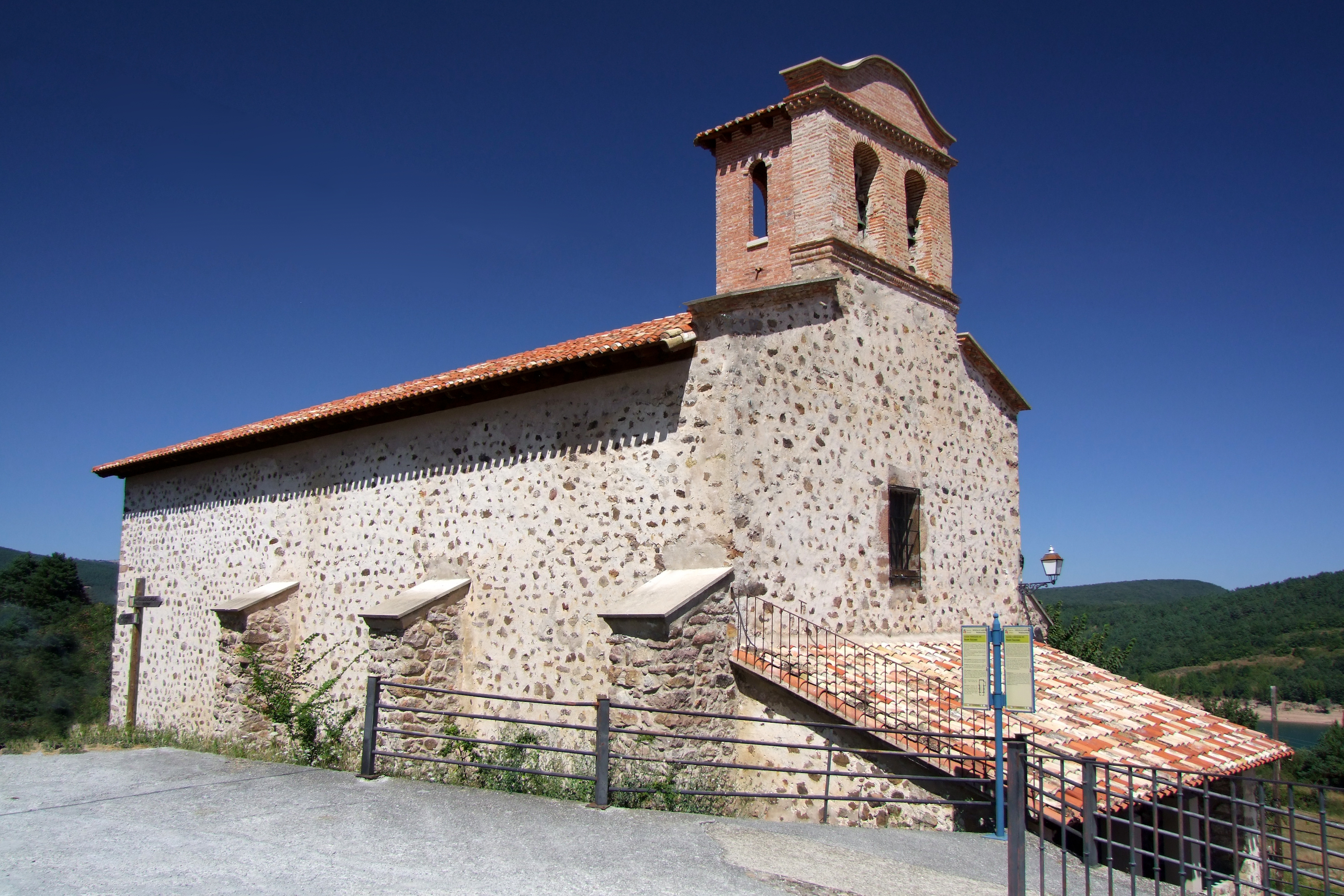 Iglesia del Buen Suceso en la localidad de Peñaloscintos, La Rioja - España